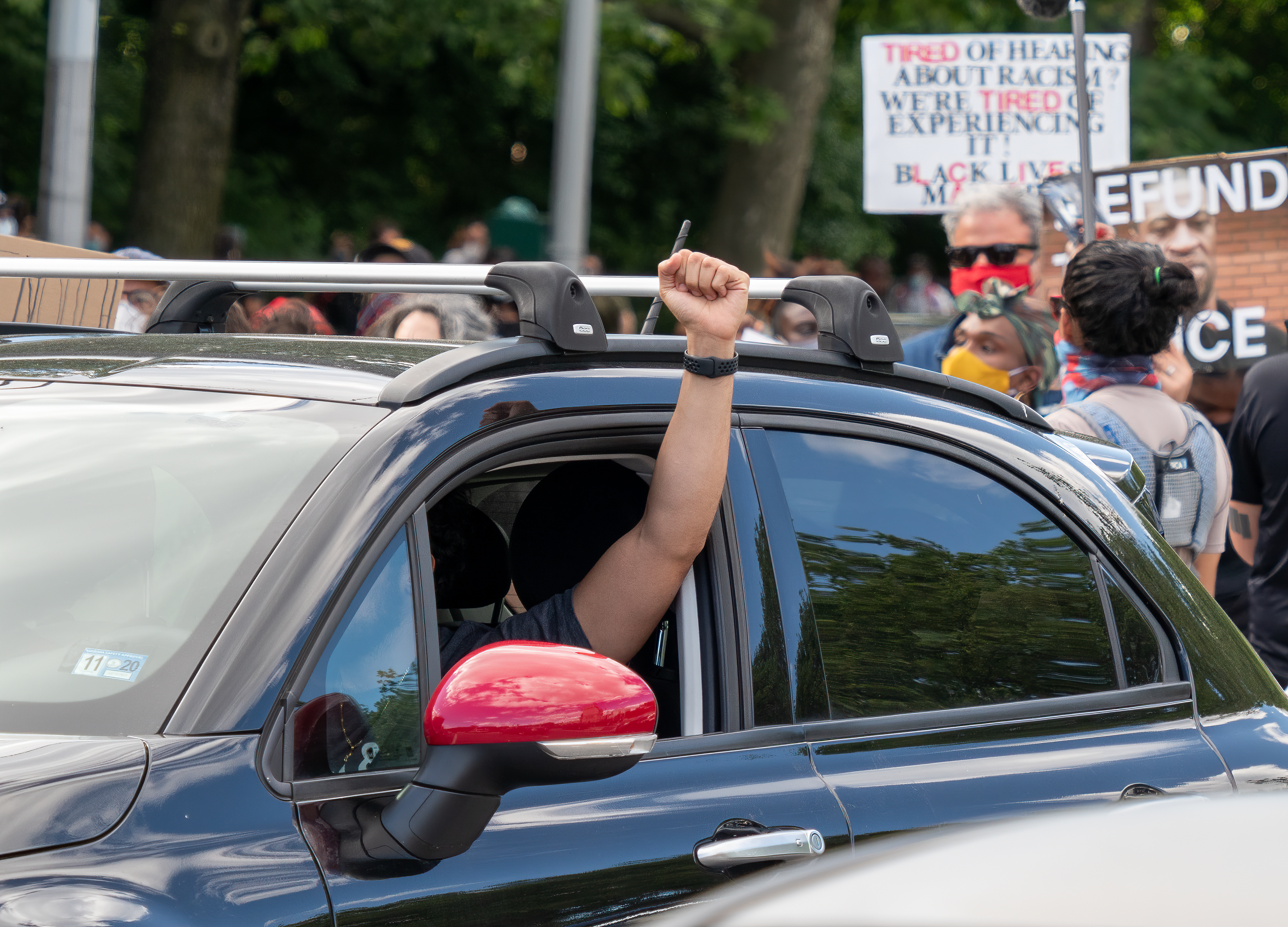 George Floyd protest in Grand Army Plaza, June 7, 2020